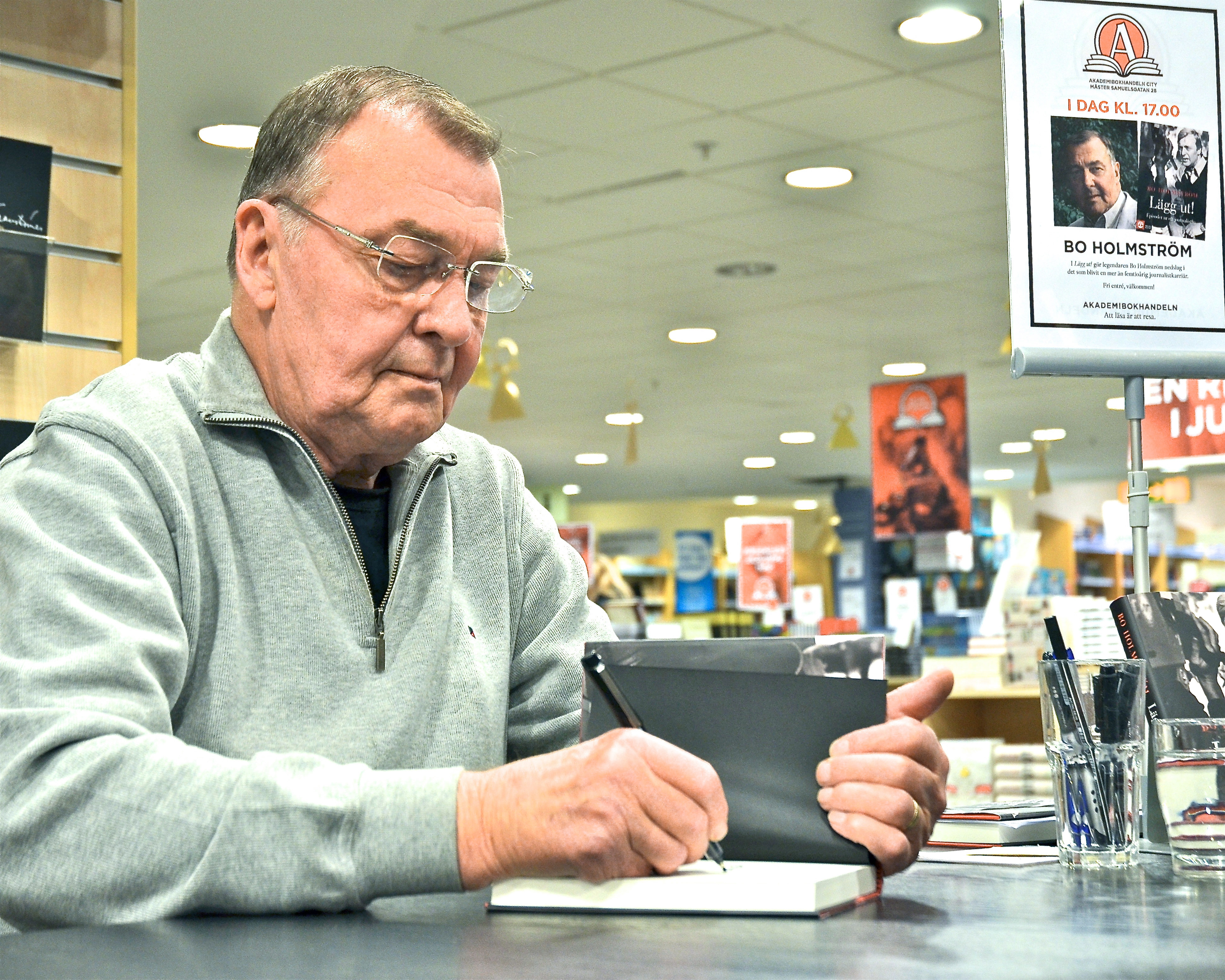 Bo Holmström signs at Akademibokhandeln in Stockholm, Sweden. 30 november 2011.